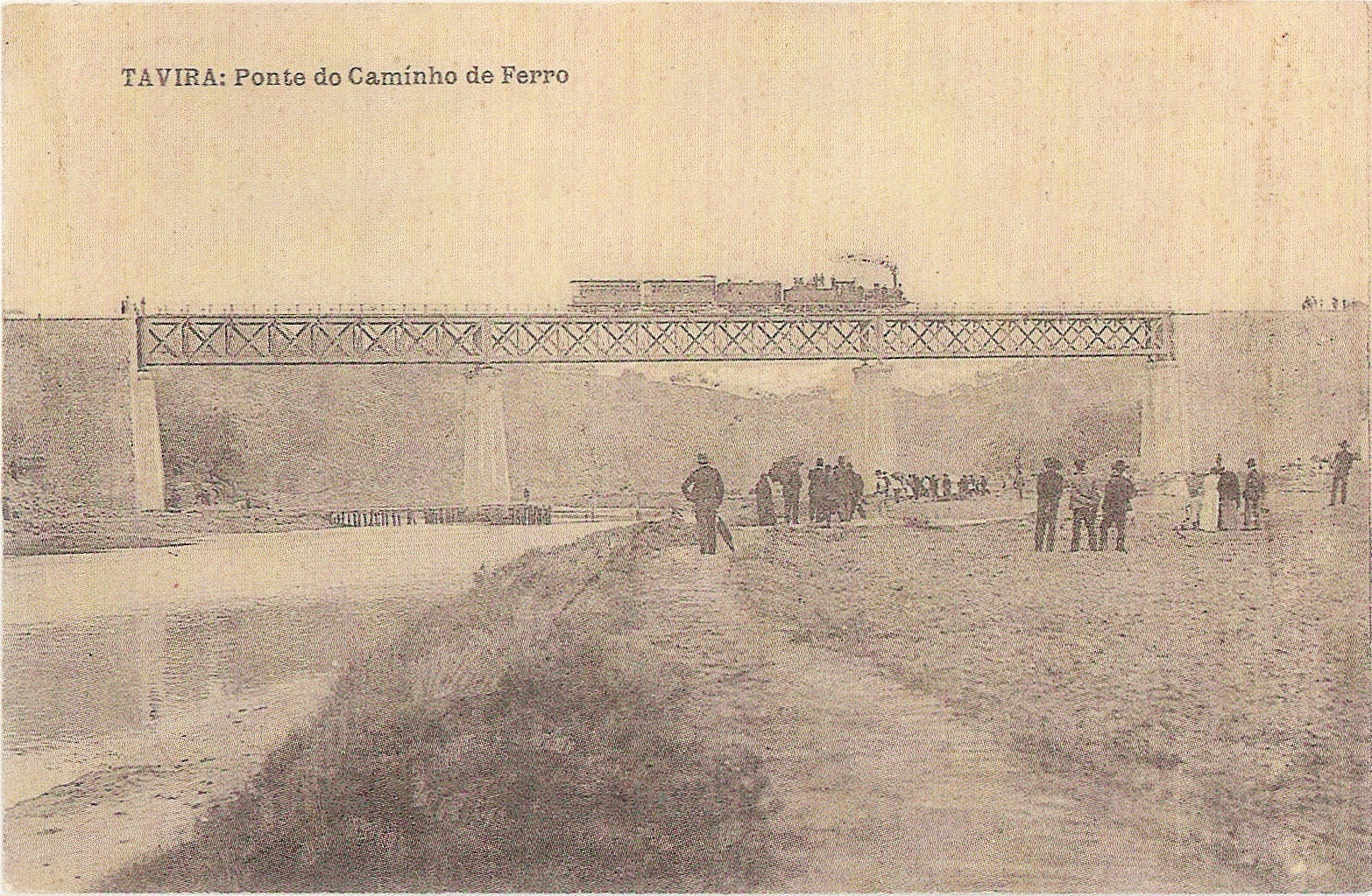 Postcard showing the Santa Maria Railway Bridge, near Tavira, in Portugal. This postcard was published by the Tabacaria Popular of Tavira, in the 1910s.